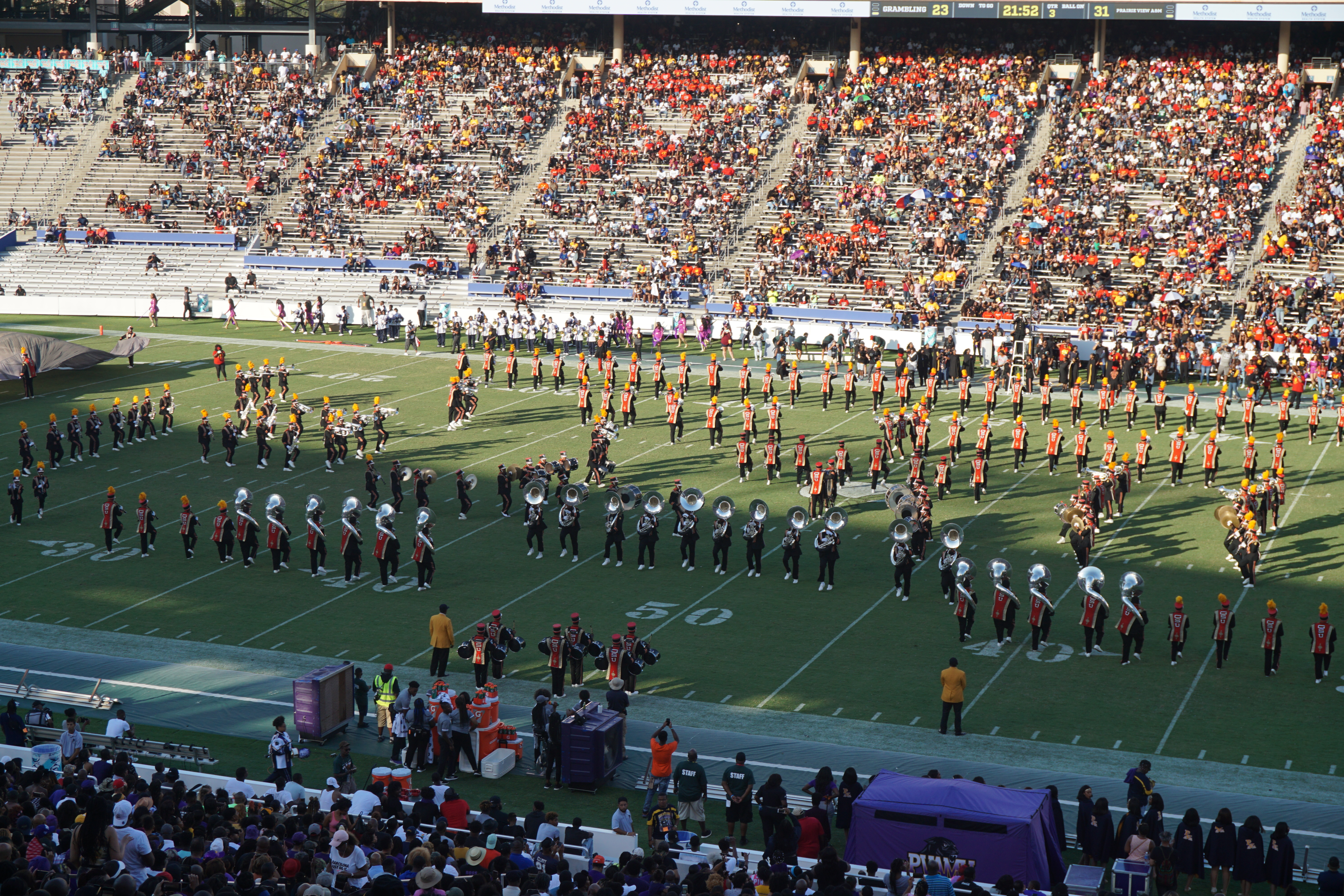 The GSU Tiger Marching Band performing during halftime of the 2019 State Fair Classic (Grambling State Tigers vs. Prairie View A&M Panthers) at the Cotton Bowl in Dallas, Texas (United States). Prairie View won 42–36.